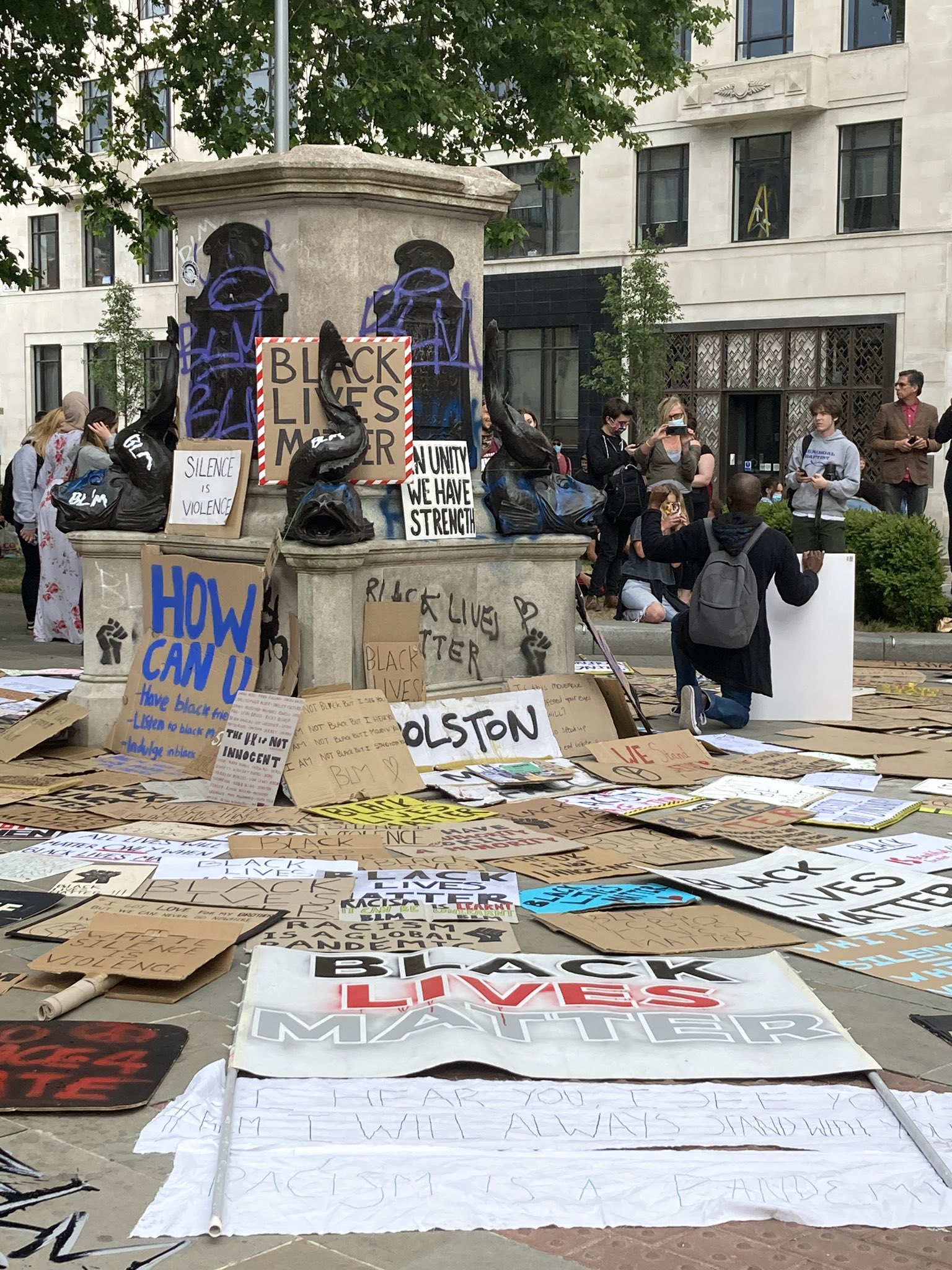 The empty pedestal of the statue of Edward Colton in Bristol, the day after protesters felled the statue and rolled it into the harbour. The ground is covered with Black Lives Matter placards.